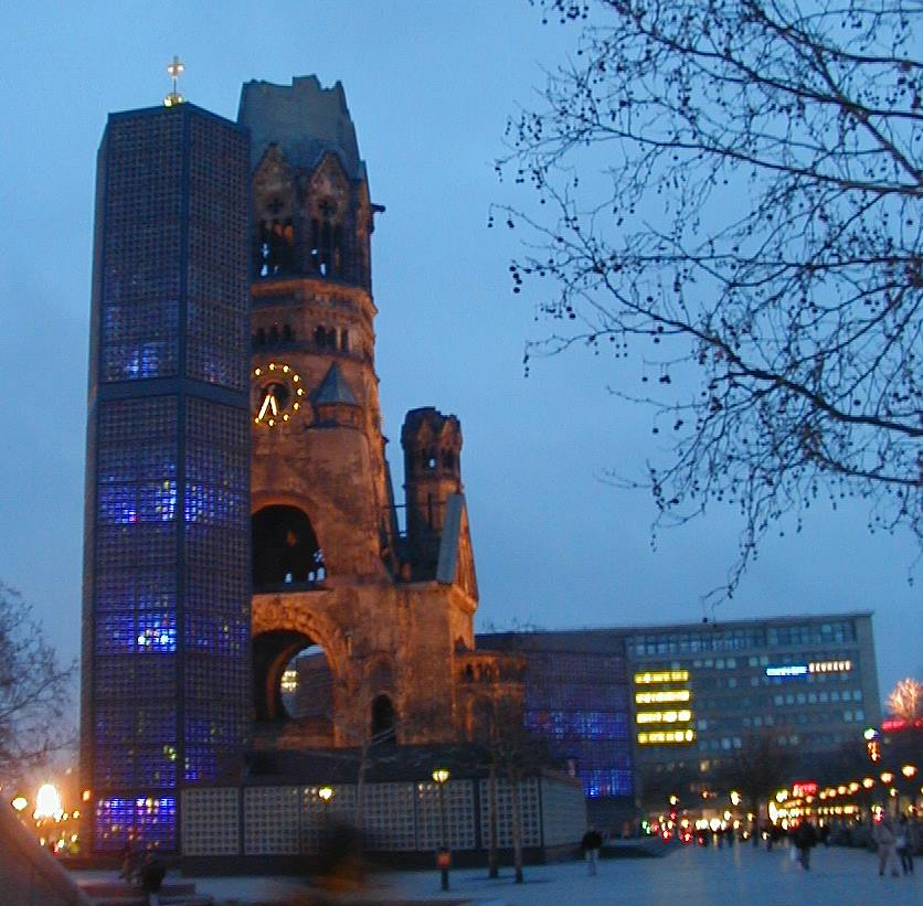 the Kaiser Wilhelm Memorial Church in Berlin-Charlottenburg.